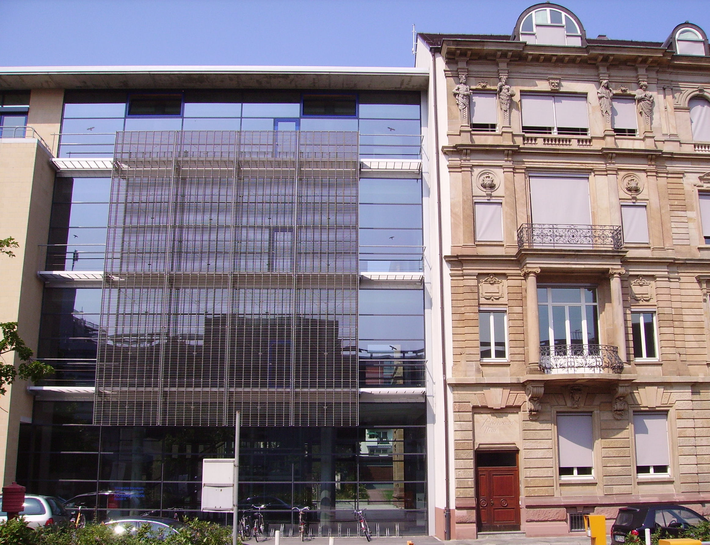 view of Mannheim, Germany